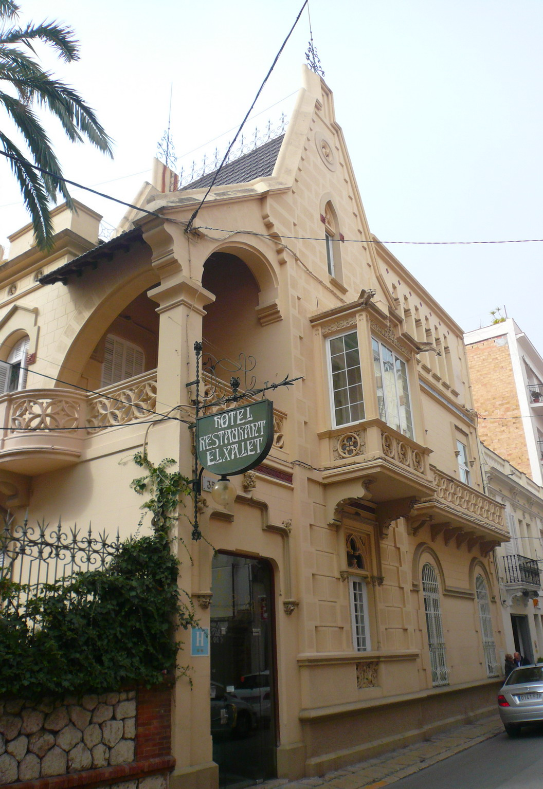 Casa Casa Bonaventura Blay in Sitges, Catalonia